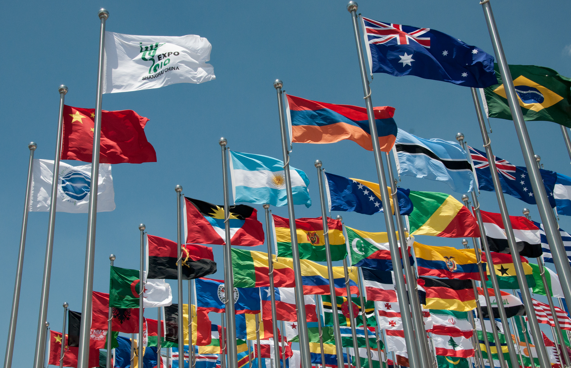 Flags of the BIE, China, Expo 2010 Shanghai, and official participants. Gate 6, Expo 2010 Shanghai, China.